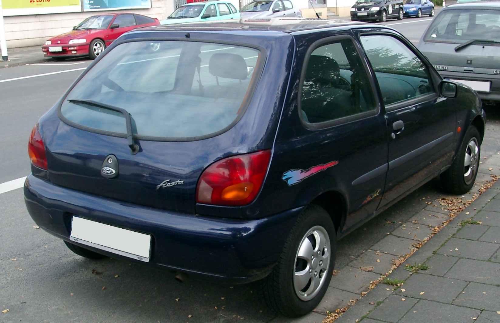 Ford Fiesta MK4